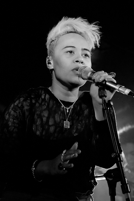 Emeli Sande King Tuts Glasgow